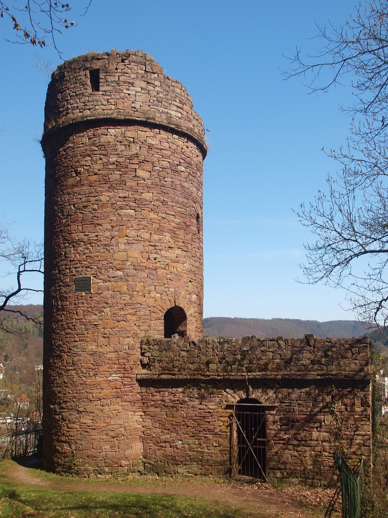 The tower Hugenottenturm in Bad Karshafen, from 1913.